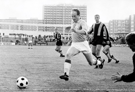 Ingvar Svahn, swedish footballplayer (1938-2008)